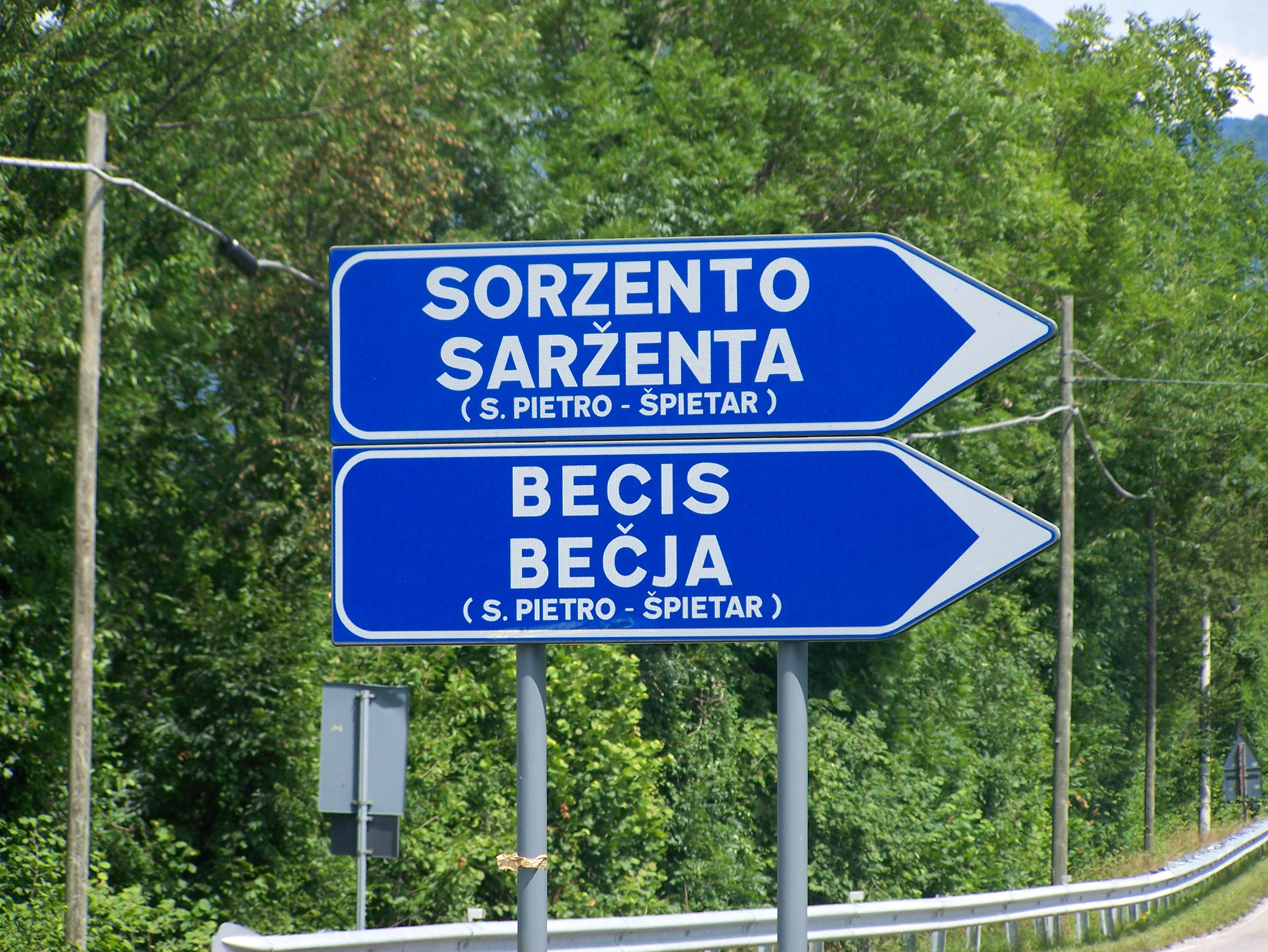 Bilingual road signs (Italian and Slovenian) in San Pietro al Natisone, Udine province, ItalyFurlan: Segnâi bilengâi par talian e sloven in comun di San Pieri, intes Valadis dal Nadison